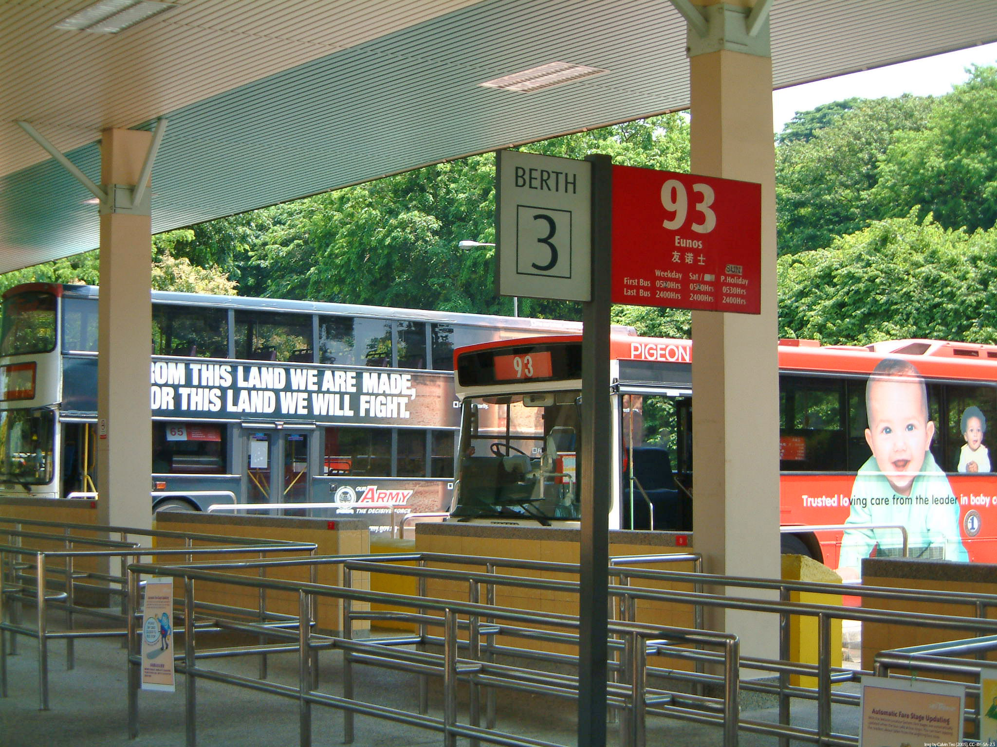 HarbourFront Bus Interchange HarbourFront, Republic of Singapore Img by Calvin C Teo